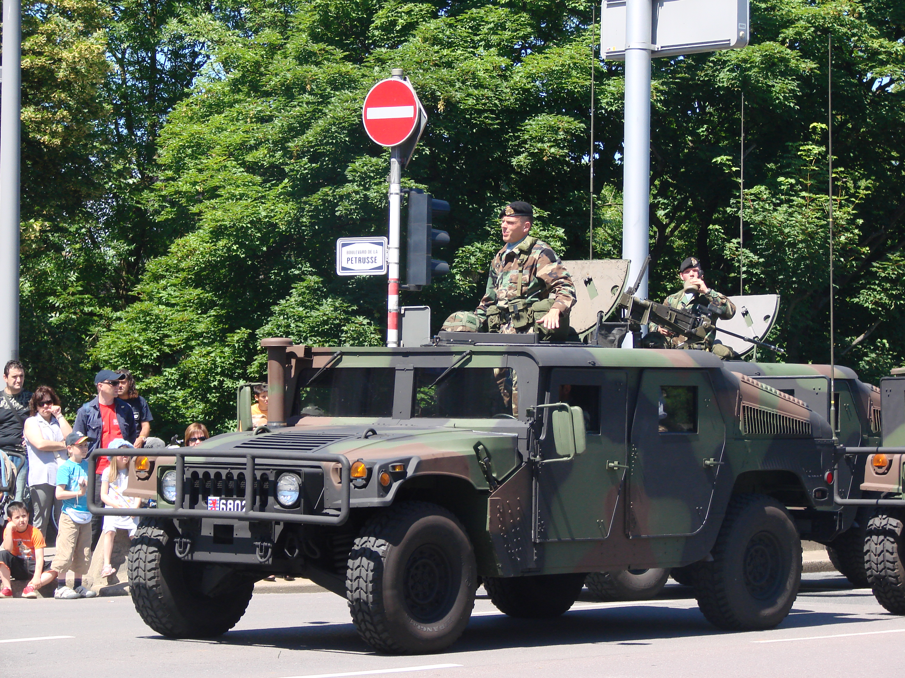 Luxemburgish Hummer during the national day.